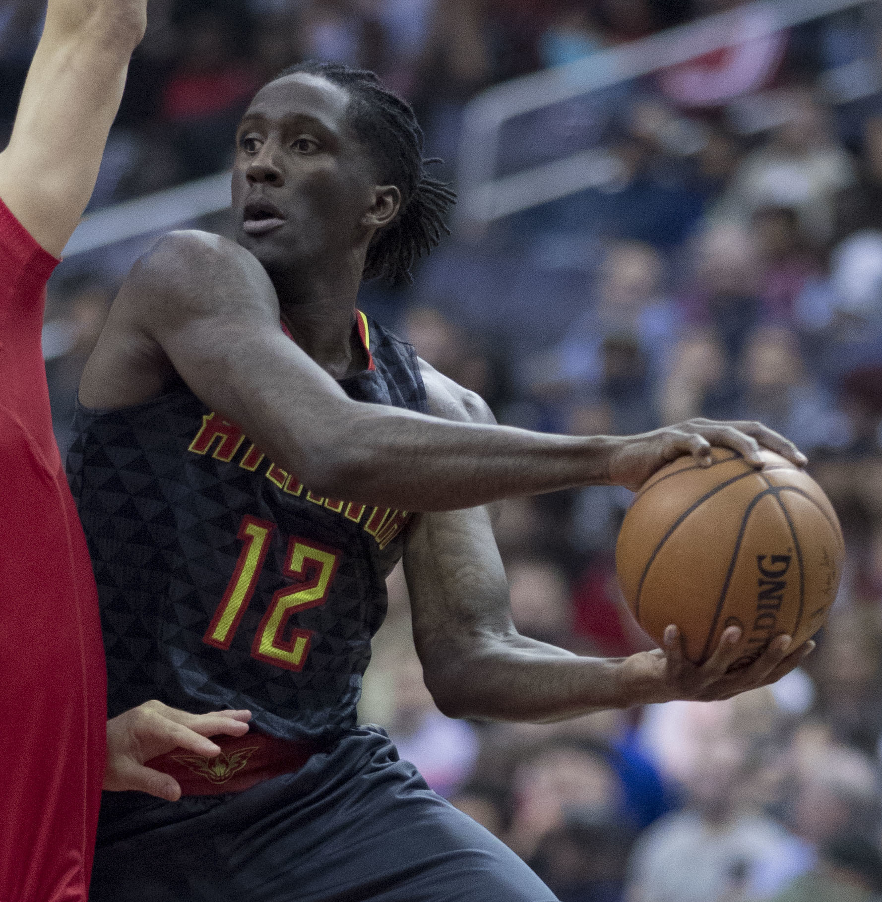 Hawks at Wizards 3/22/17